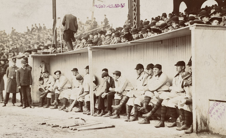 The Pittsburgh Pirates in the dugout at the Huntington Avenue Grounds, 1903 World Series Description: Left to right: utility player Joe Marshall, infielder Otto Krueger, outfielder Jimmy Sebring, shortstop Honus Wagner, unidentified, catcher Eddie Phelps, the bat-boy, pitcher Gus Thompson, pitcher Deacon Phillippe, first baseman Kit Bransfield, outfielder Ginger Beaumont, pitcher Sam Leever, second baseman Claude Ritchey, and pitcher Brickyard Kennedy.The Pittsburgh Pirates in the dugout at the Huntington Avenue Grounds